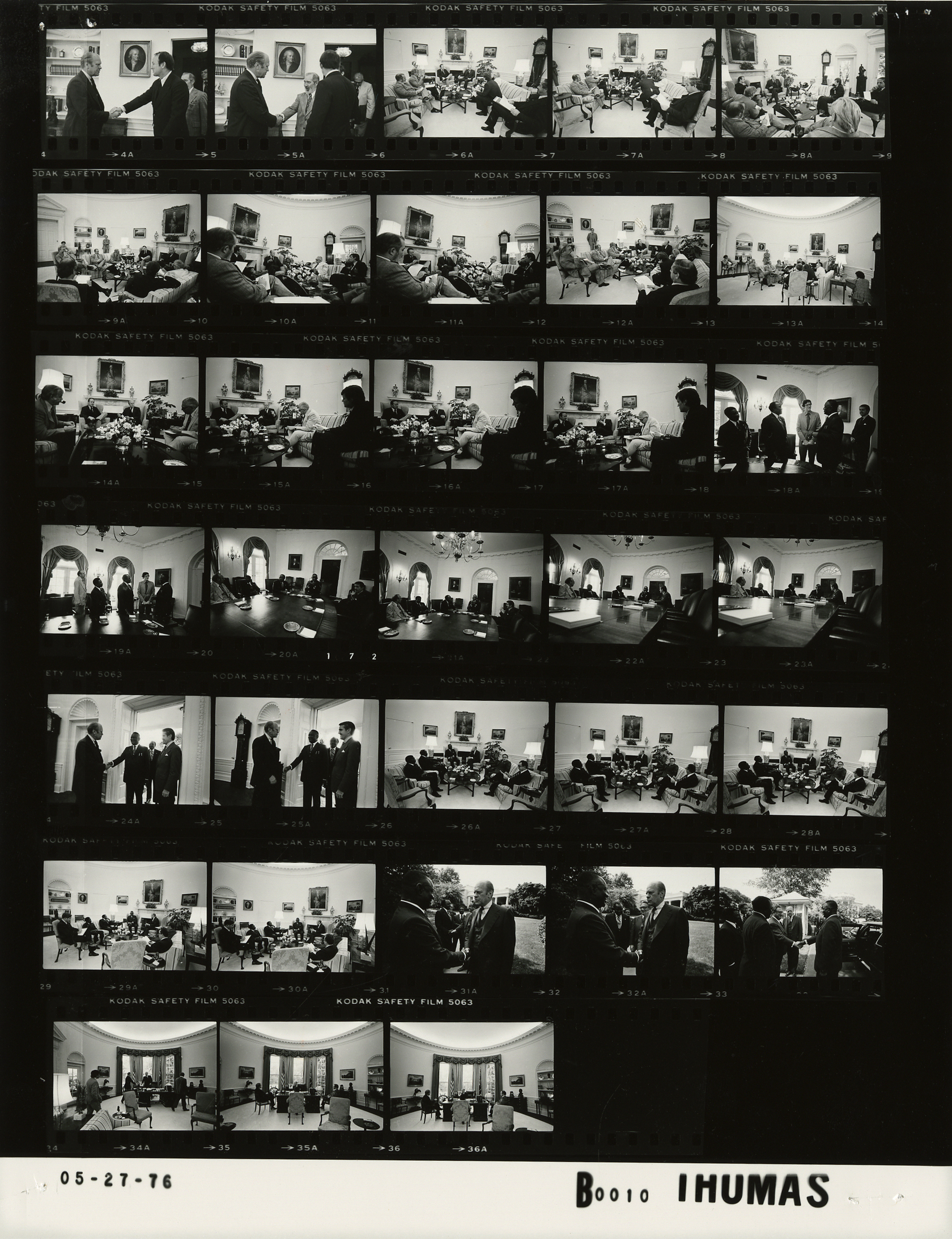 The photo contact sheet, identified as B0010 by the White House Photographic Office (WHPO), is housed at the Gerald R. Ford Presidential Library, a branch of the National Archives and Records Administration (NARA). This file is a 200 dpi photo contact sheet having images from roll of film B0010 of the August 9, 1974 - January 20, 1977 Gerald R. Ford White House Photographic Office Series A0001-A9999 and B0001-B2886 photographs. The date on the photo contact sheet is the date the roll of film was processed, not necessarily the date the photographs were taken. See table below for additional details.